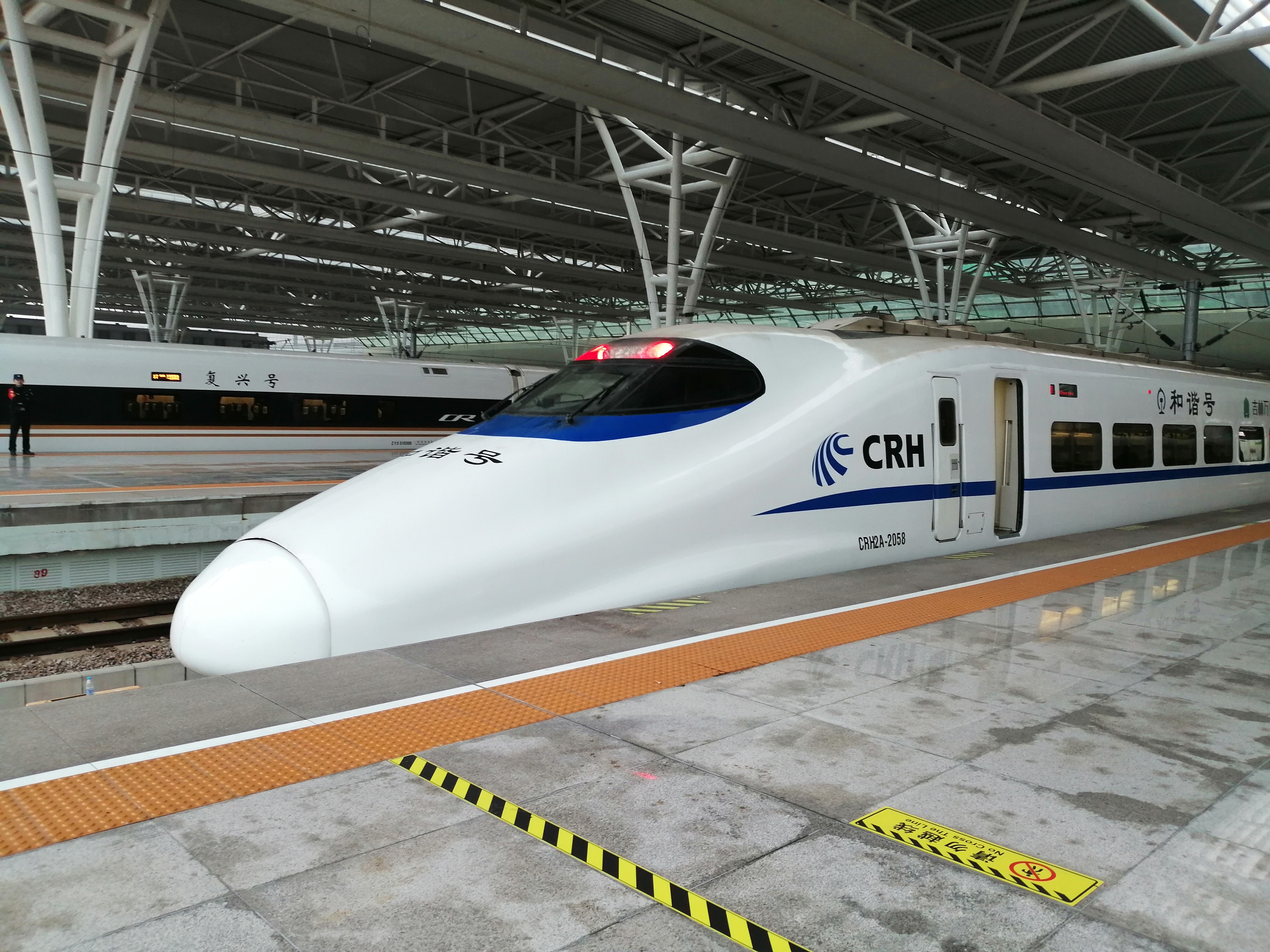 CRH2A-2058, which served as D2287 to Shenzhen North, is ready to depart at Shanghai Hongqiao Railway Station. 中文（中国大陆）: 开往深圳北站的D2287次（CRH2A-2058担当）在上海虹桥站准备发车